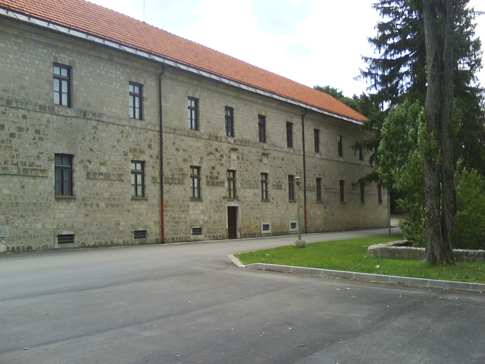 Roman Catholic church of St.Peter and Paul in Livno